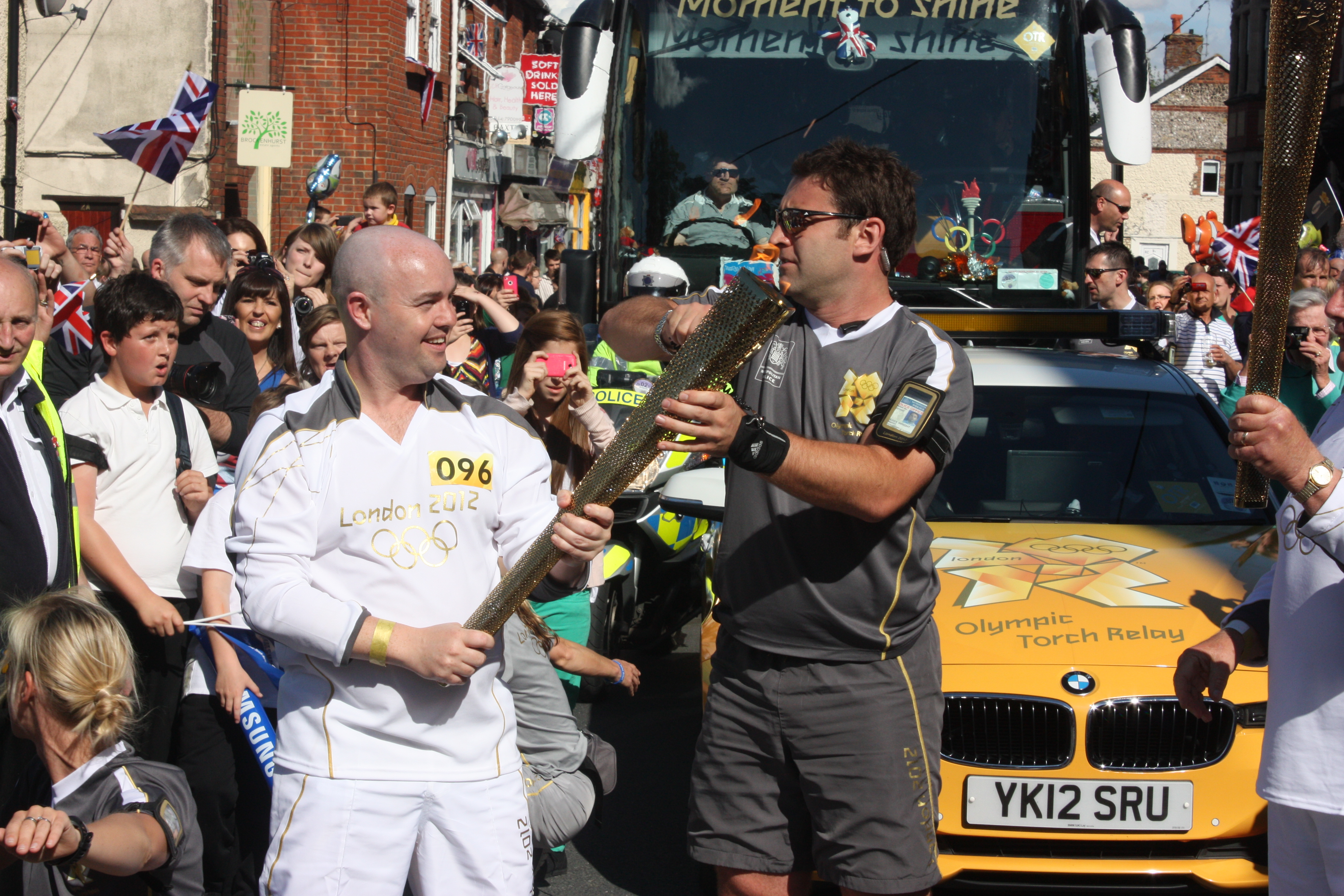 Torchbearer Damien Davis carries the Olympic Flame